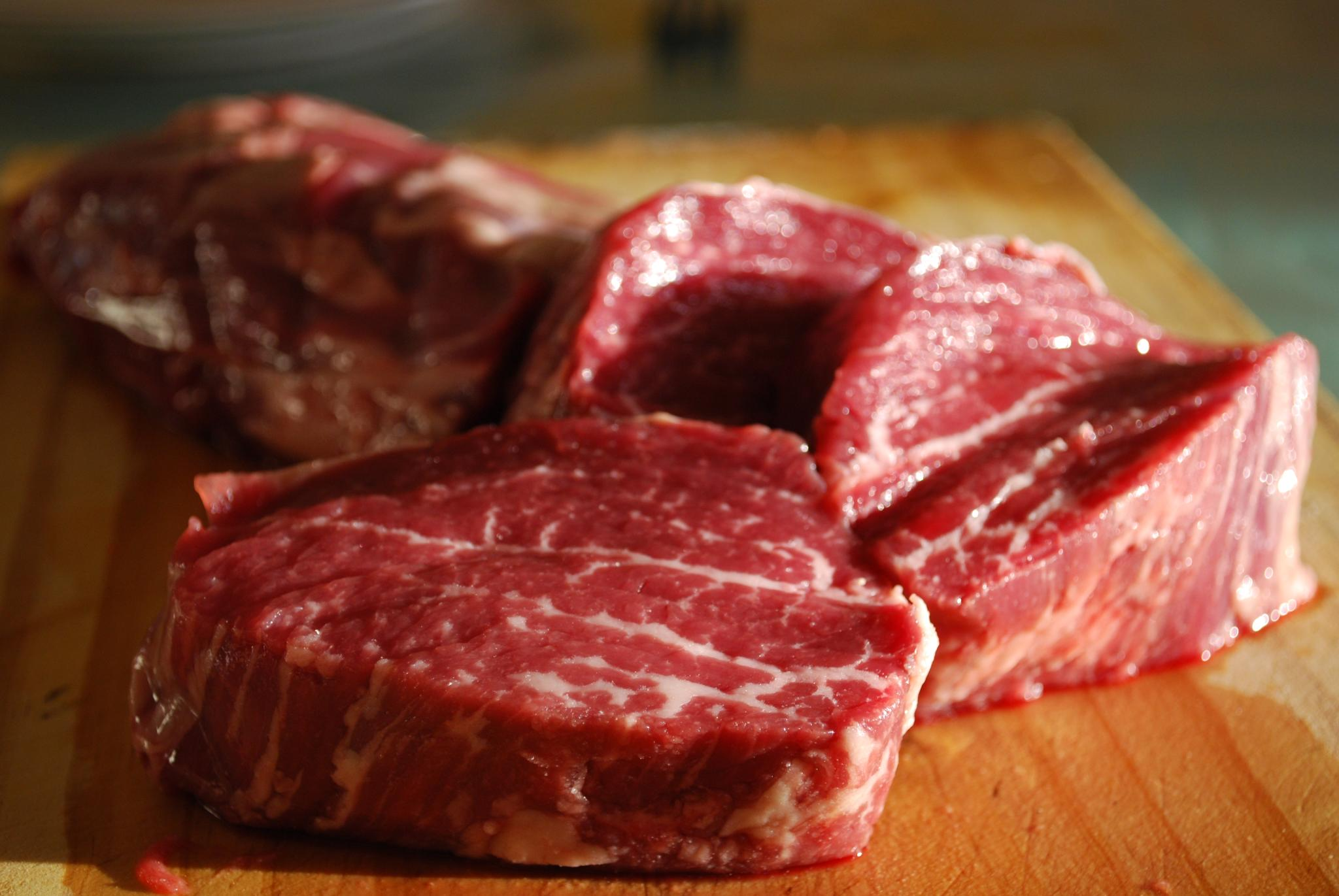 Eye fillet of grass-fed beef.